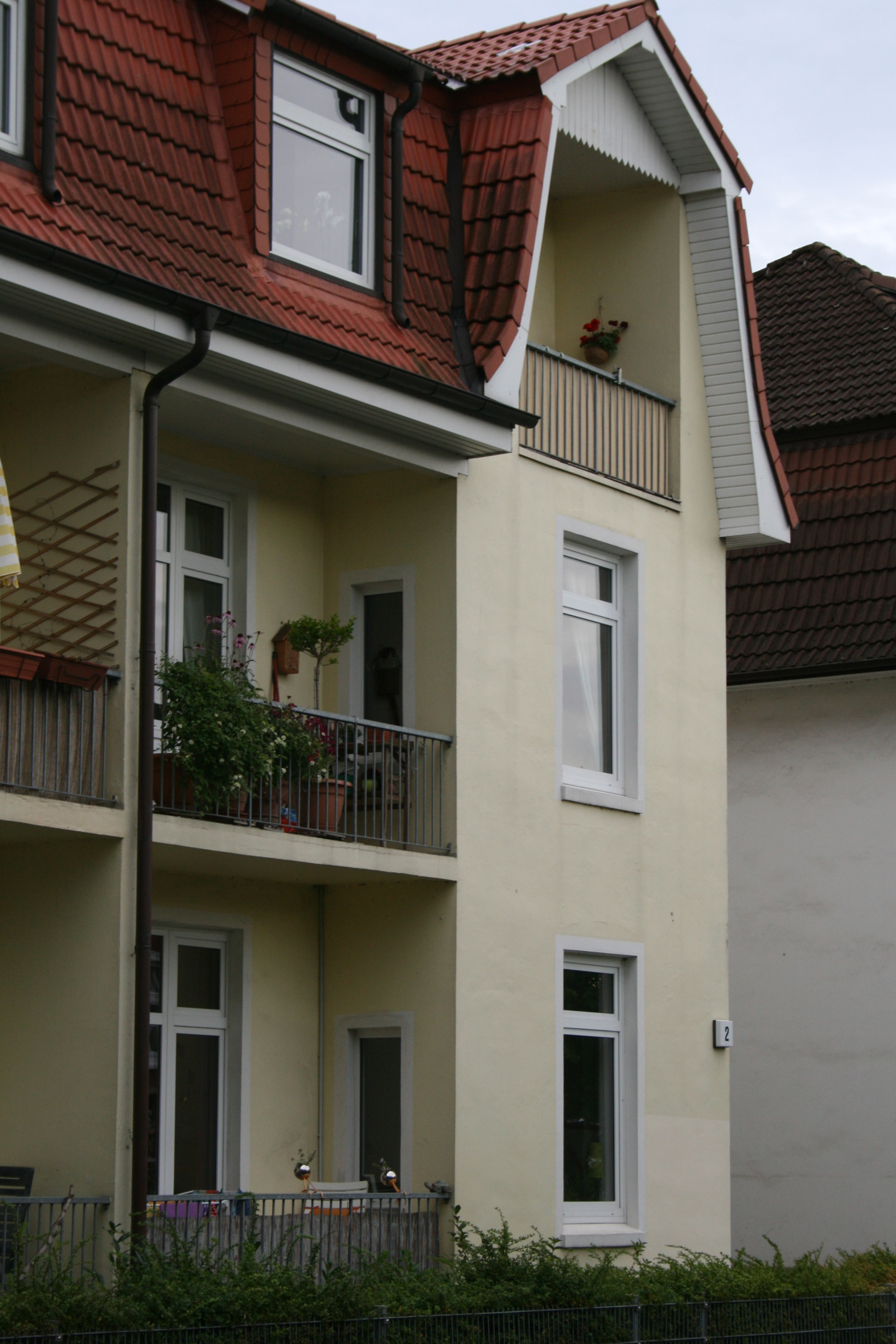 House Heckkatenweg 2. In front of the house there are Stolpersteine for Blanca and Erika Mansfeldt